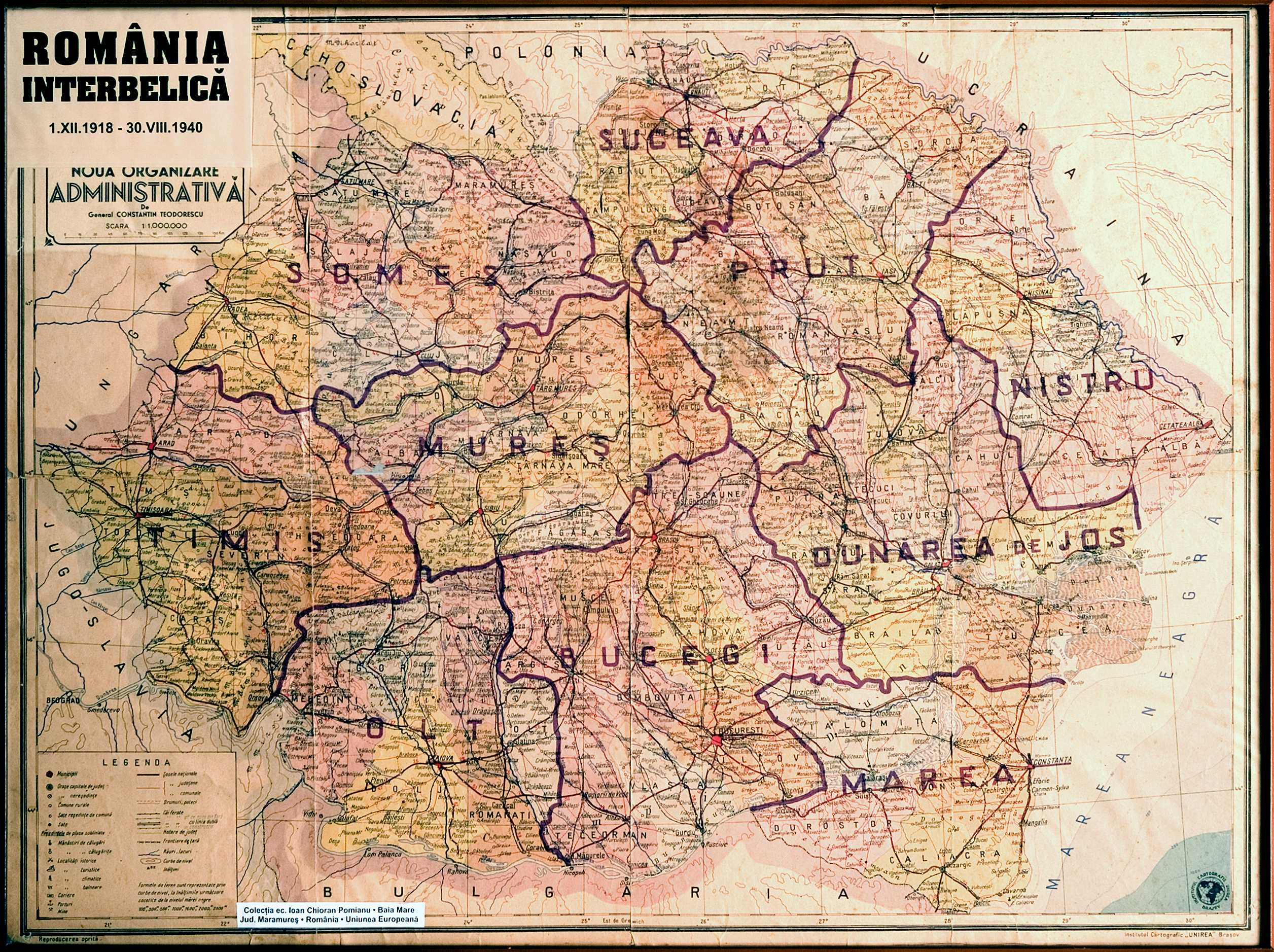 Romania 1938